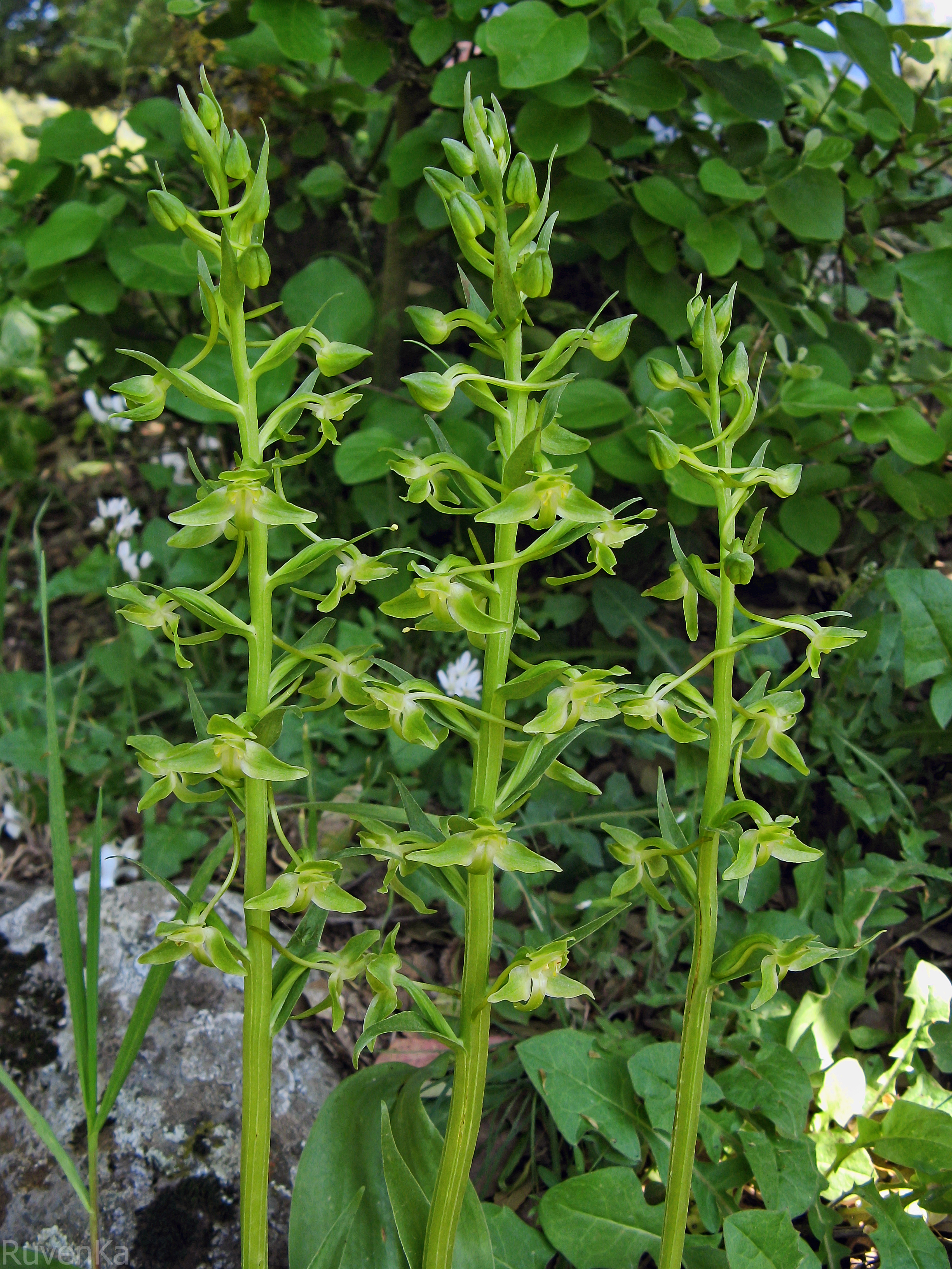 Platanthera holmboei